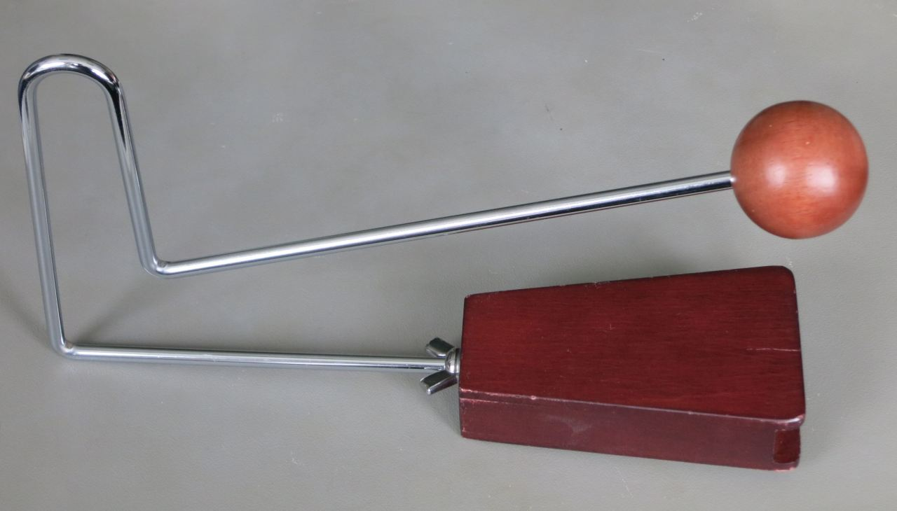 Vibraslap: view from the side. One hand holds the handle (on the left side of the picture), the other one slaps the wood ball.